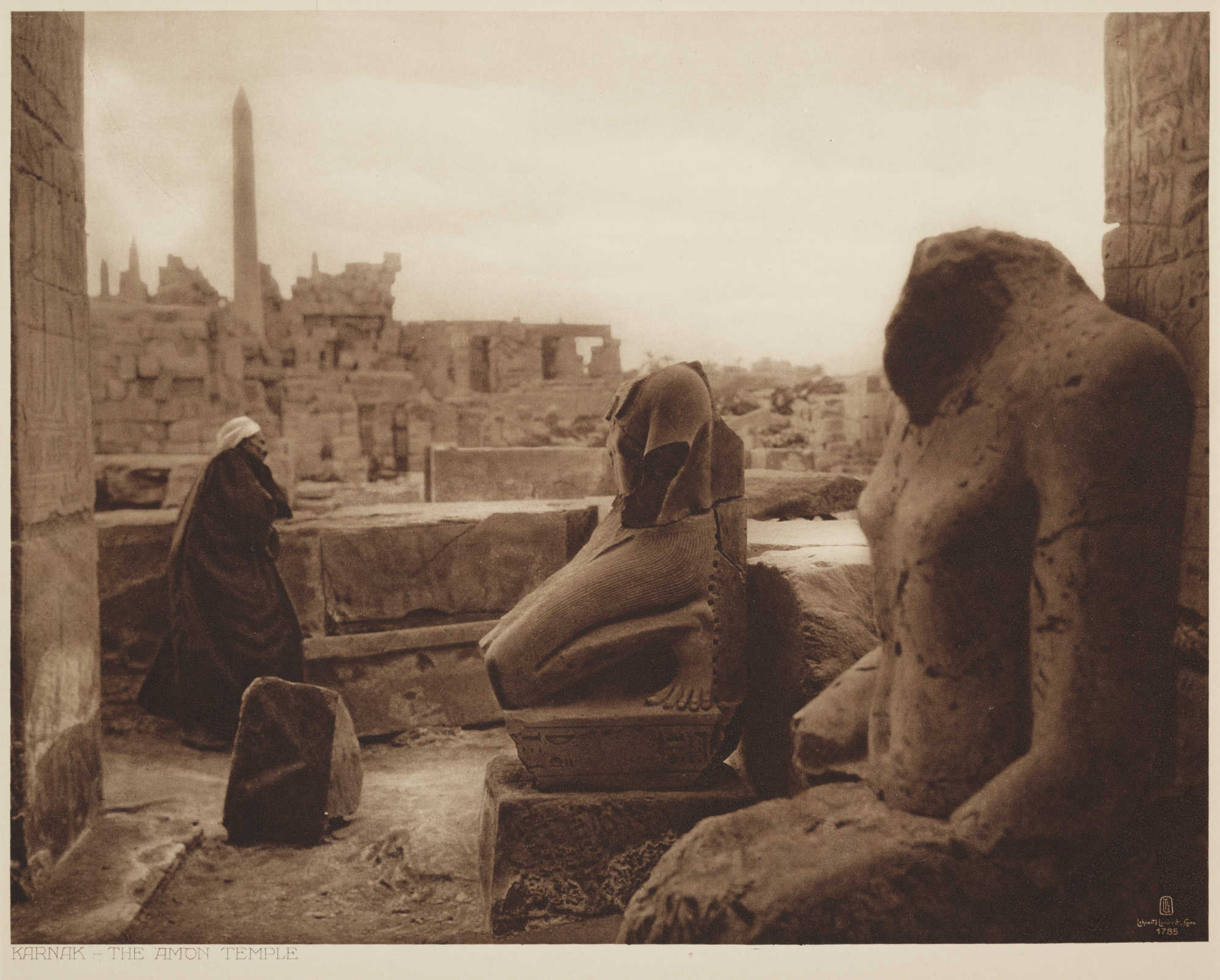 Lehnert & Landrock of Cairo (Rudolf Lehnert (1878-1948) & Ernst Landrock (1878-1966)); 'Karnak - The Amon Temple', about 1925; Collotype; 22.5 x 28.9cm Don McCullin is one of Britain’s greatest photographers. For his latest project he has photographed archaeological remains around the Mediterranean. On a recent visit to the Museum, to coincide with the opening of a major exhibition of his work, Don made a personal selection of photographs from the National Media Museum's collection, revealing how these sites were recorded by earlier photographers such as Francis Frith and Maxime Du Camp. Don McCullin: "I have chosen this picture because it has got tremendous mood. The lighting is beautiful and the figure on the left is really more like a painting than a photograph. It's got all the qualities of something I would be really pleased to photograph myself."